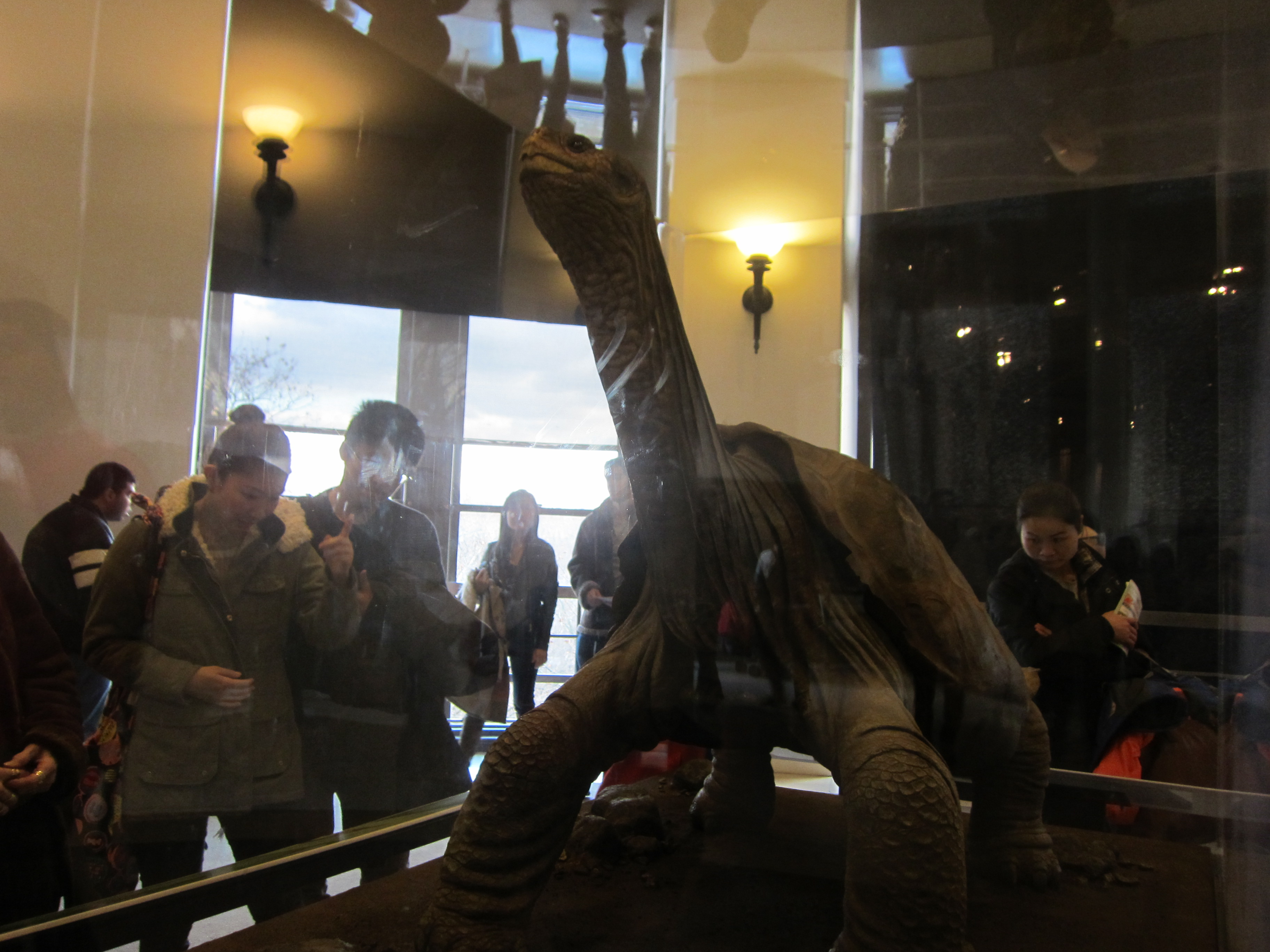 American Museum of Natural History, NYC